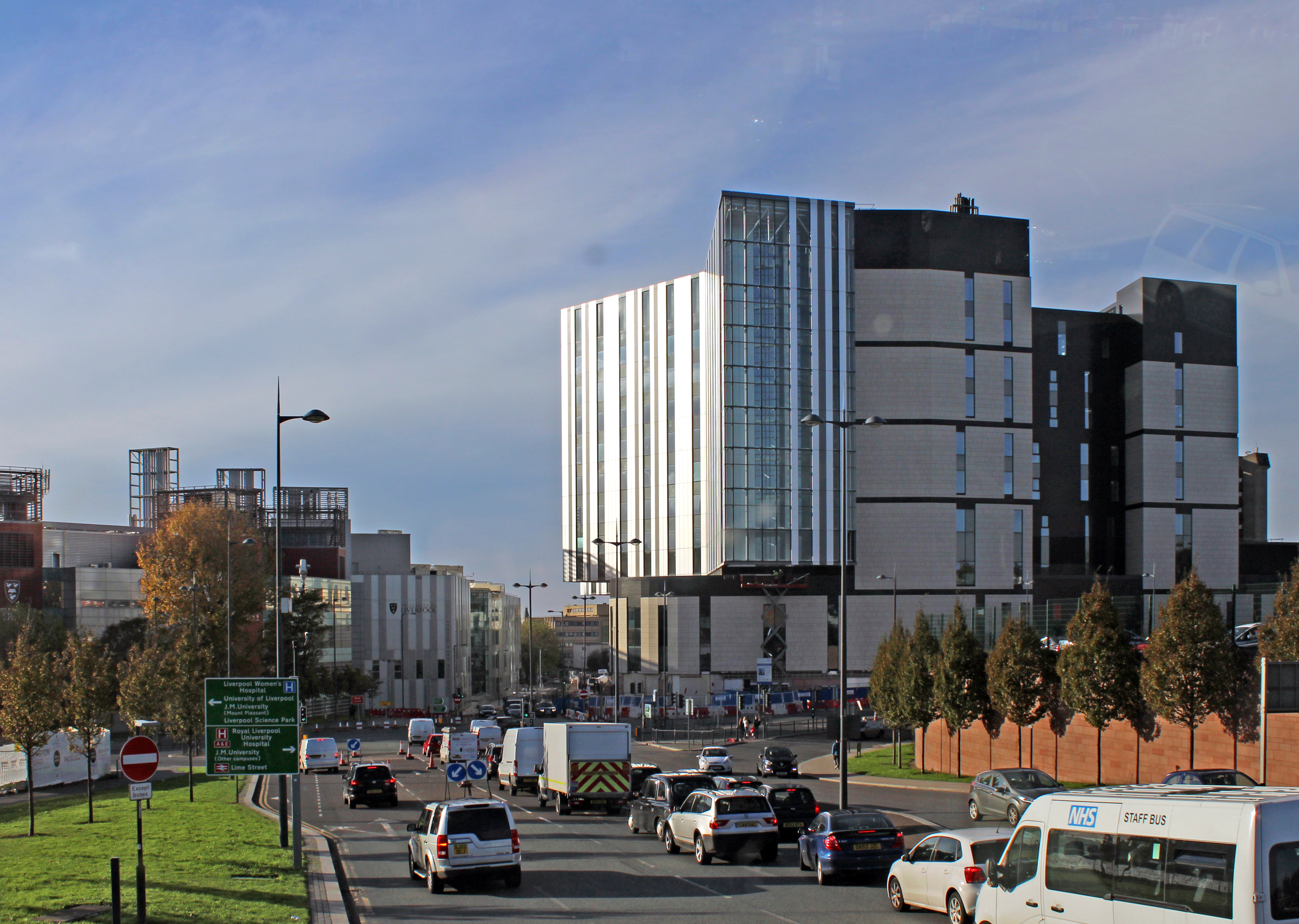 Heading west into the city centre; on the A5047 from Edge Lane. Beyond, West Derby Street joins Pembroke Place. New buildings of the Royal Liverpool University Hospital on the right.